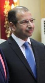 U.S. Secretary of State John Kerry poses for a photo with Iraqi Council of Representatives Speaker Salim al-Jabouri in Baghdad, Iraq on September 10, 2014. [State Department photo/ Public Domain]